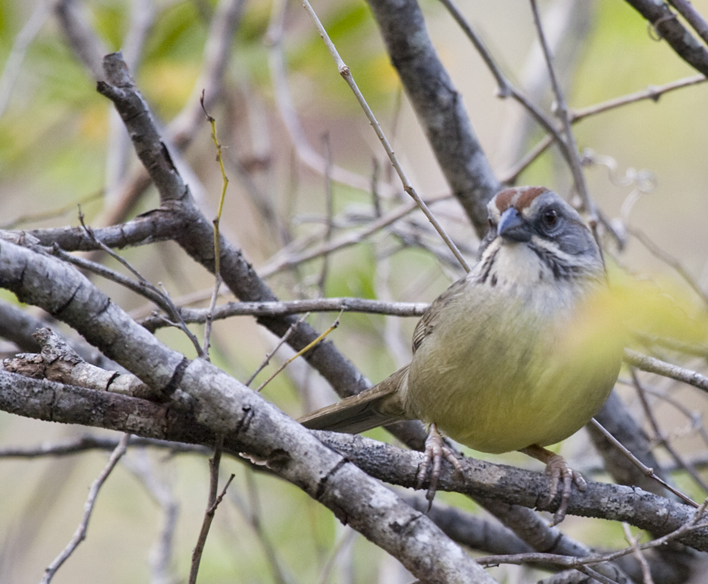 A Zapata Sparrow, Cayo Coco, Ciego de Avila Province, Cuba.